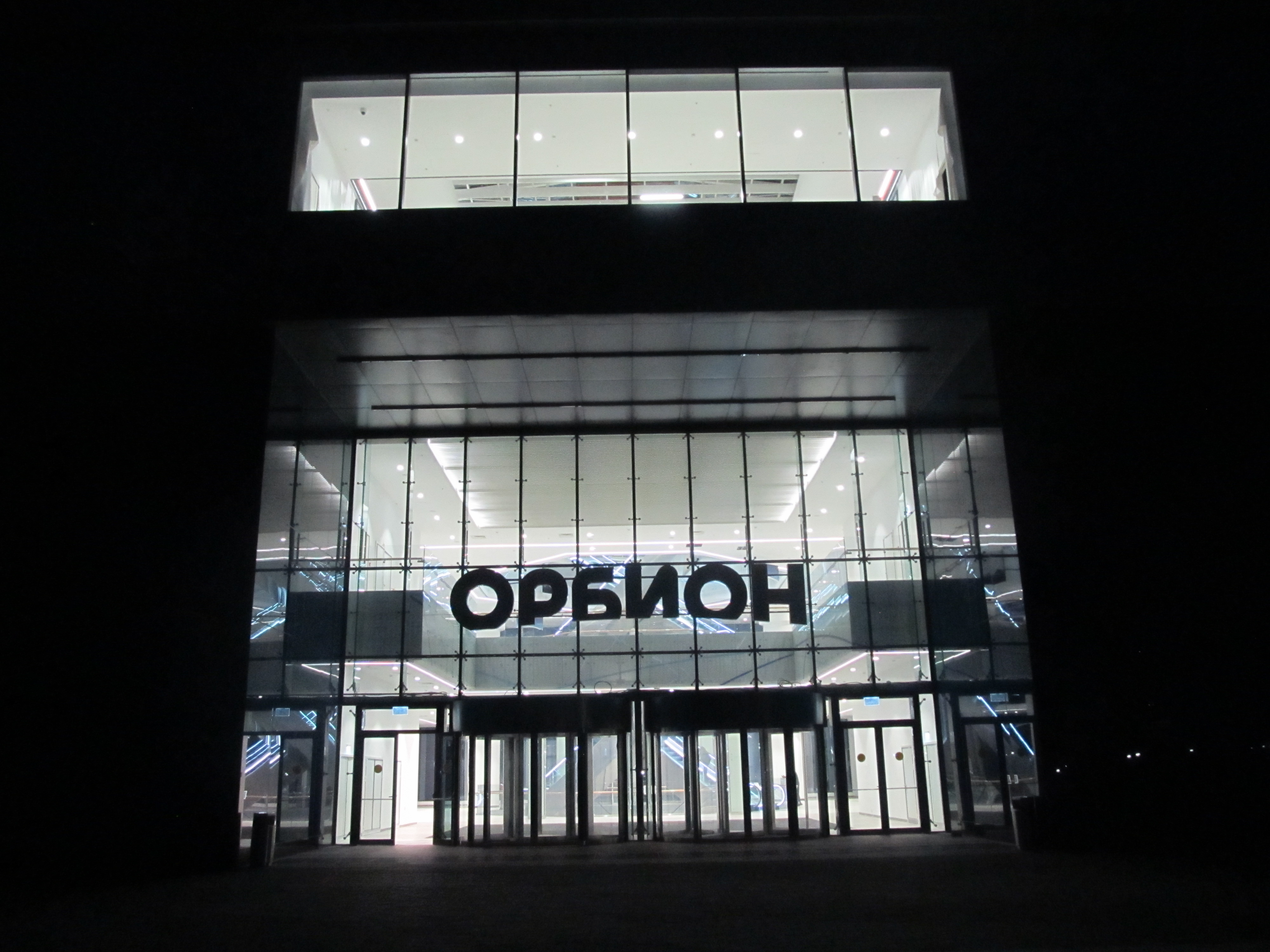 Entrance of Skolkovo Innovation Centre railway platform and Orbion Business Centre (from Skolkovo Innovation Centre)